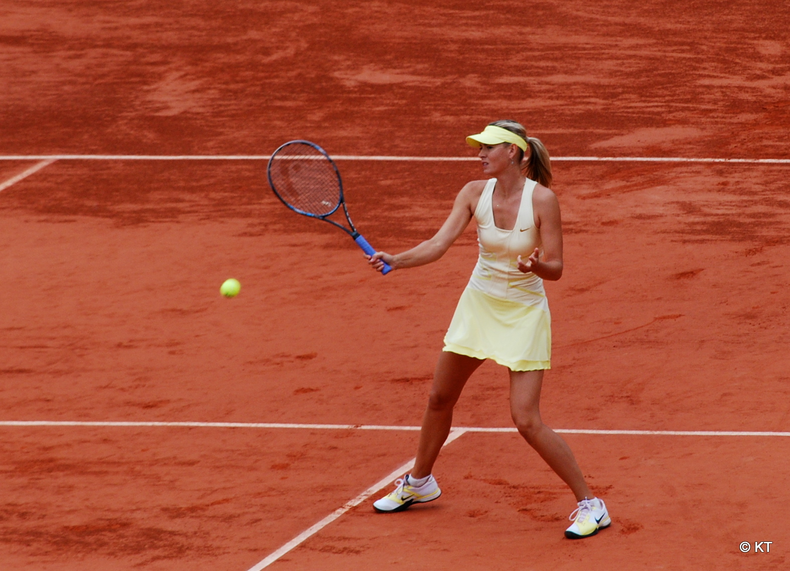 Maria Sharapova in her 2nd round match with Caroline Garcia at Roland Garros 2011. She won 3-6, 6-4, 6-0.